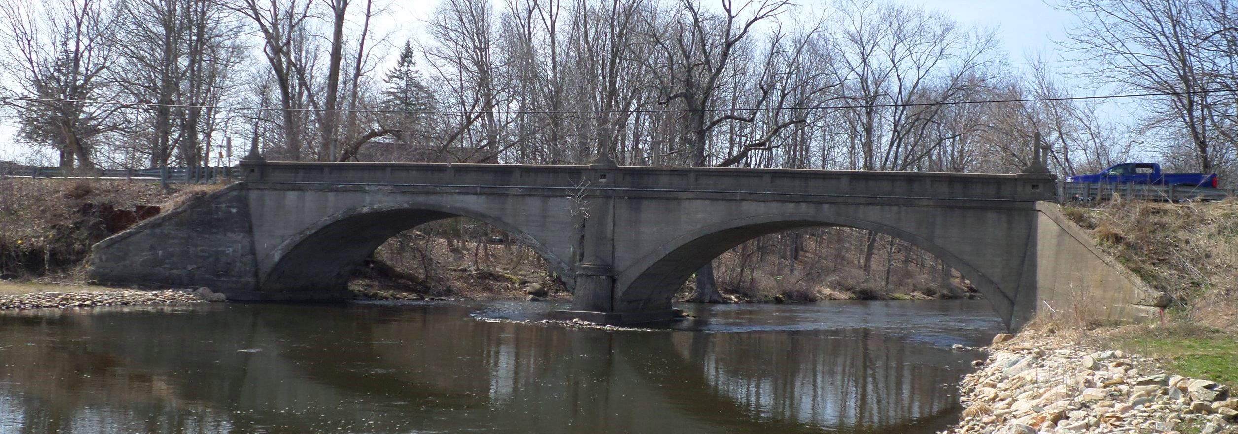 The 12 Mile Road Bridge across the Kalamazoo River in Ceresco, MI. The bridge is listed on the National Register of Historic Places.